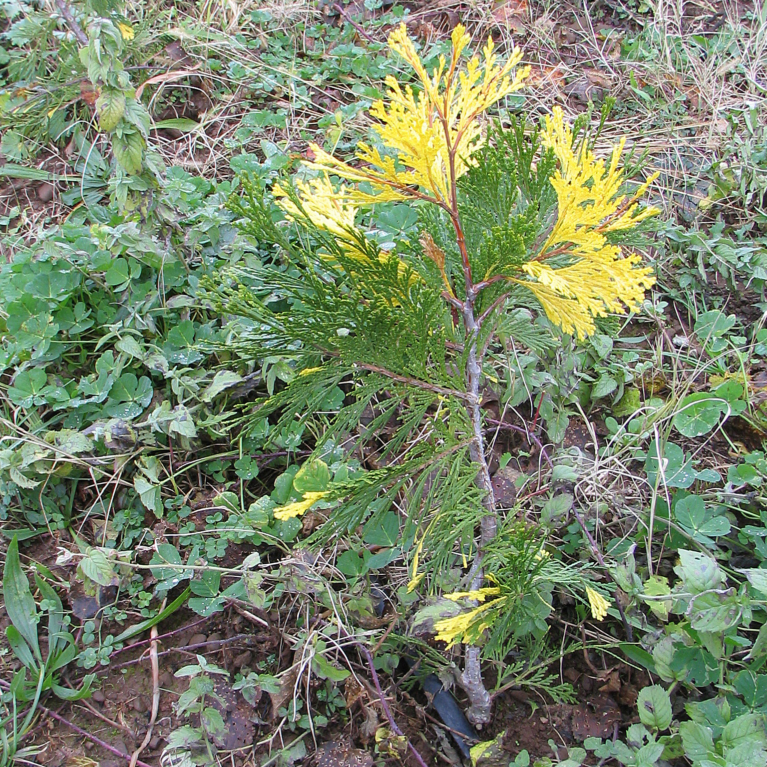 Calocedrus decurrens 'Aureovariegata'